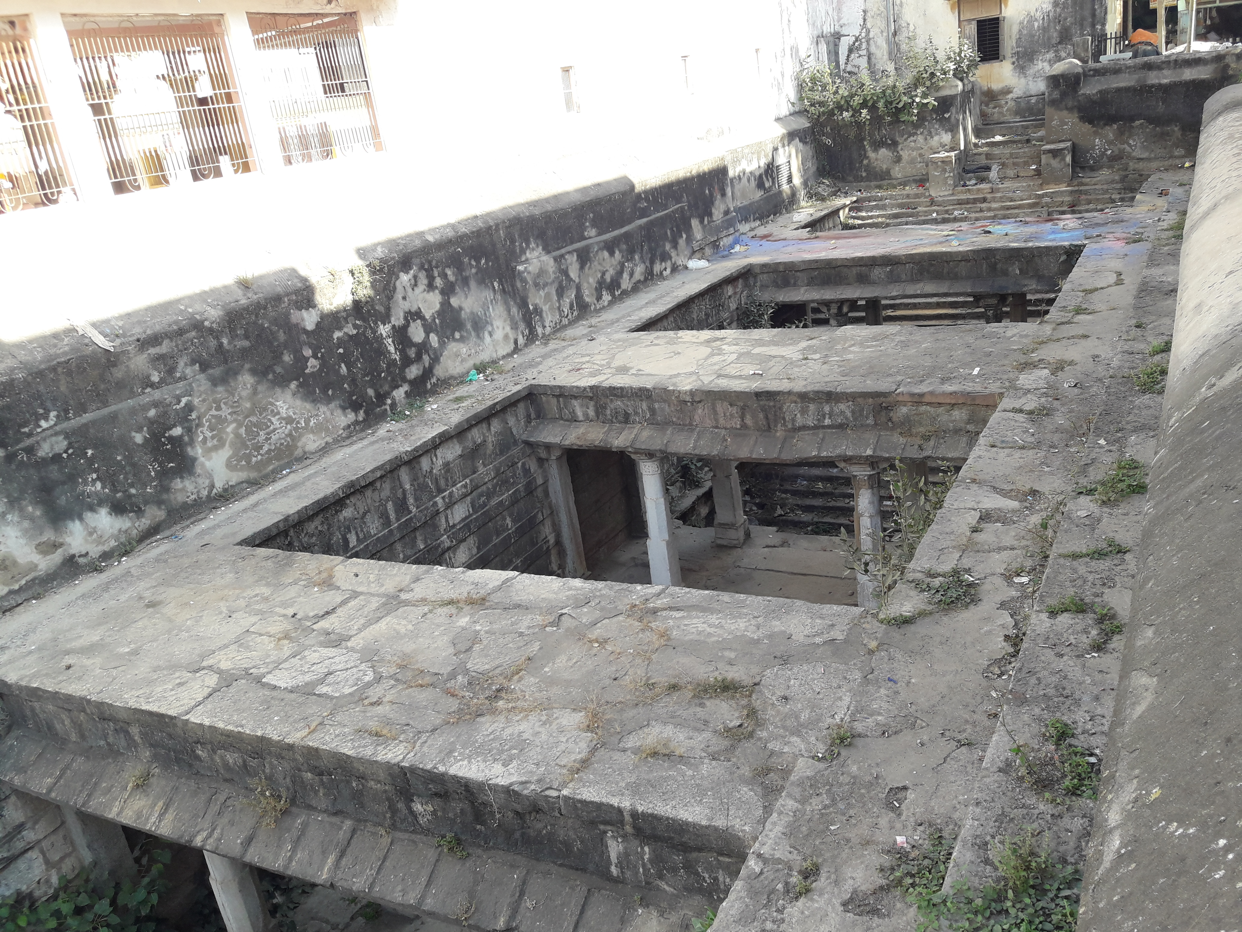 Brahma Vaav near Brahmaji Temple in Khedbrahma, Gujarat, India.